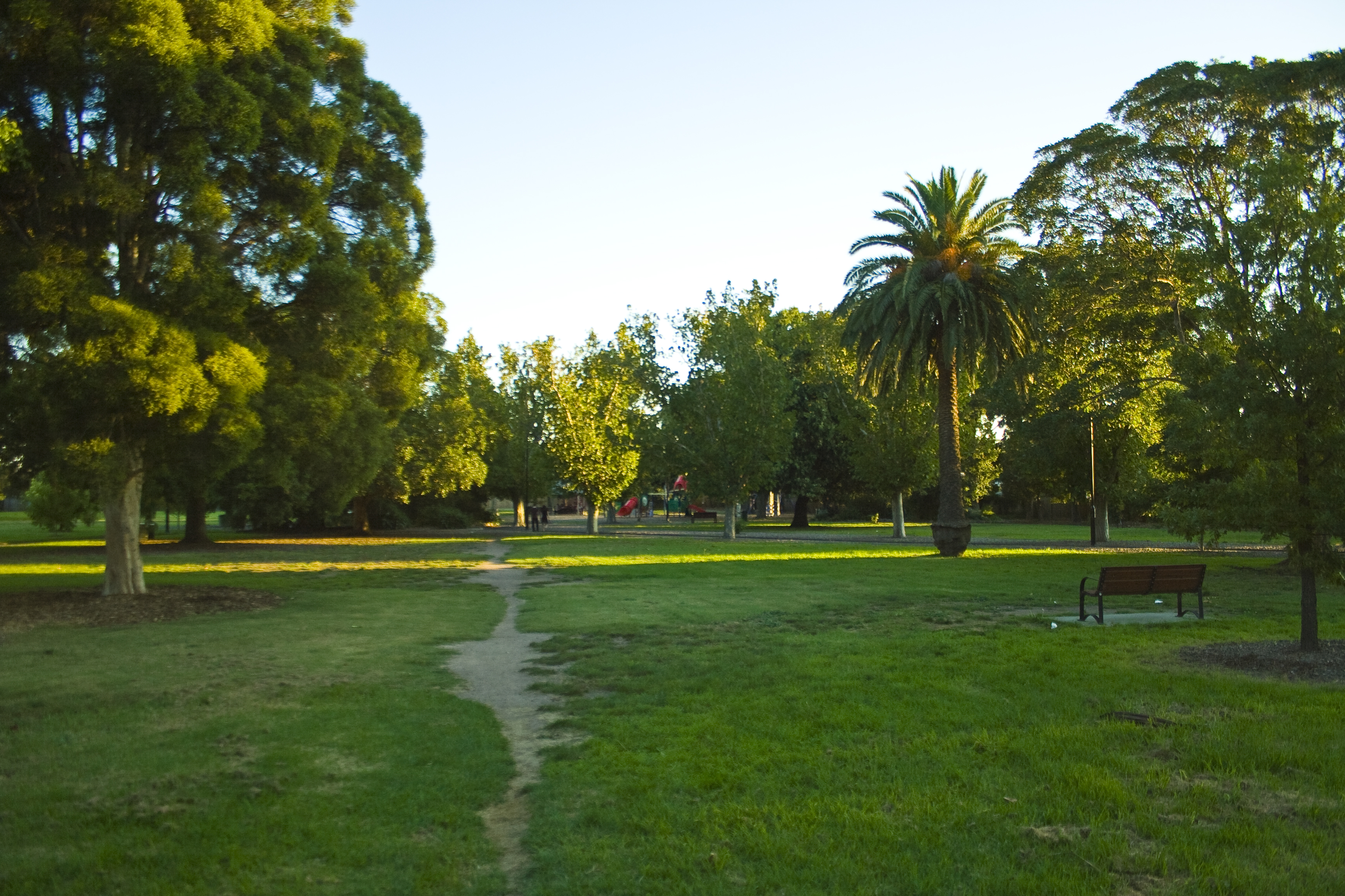 Johnson Park, Northcote, Victoria, Australia. View of the Park looking south towards the playground.